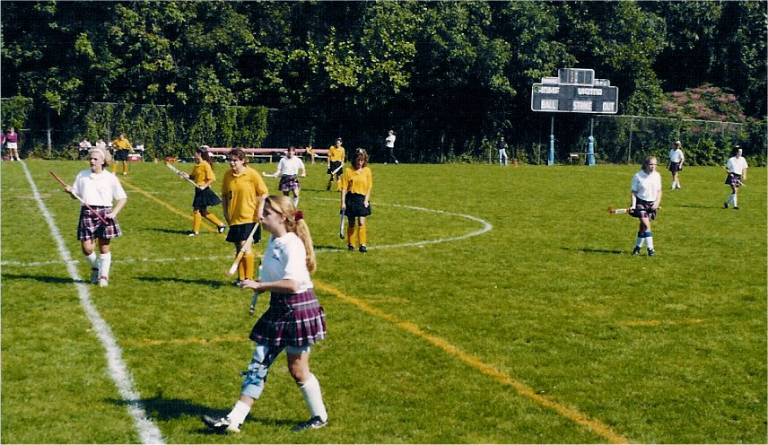 My girls field hockey team (Pictured in white). Founded by me. We lost this match and went on to lose every other match we played that season. gg.